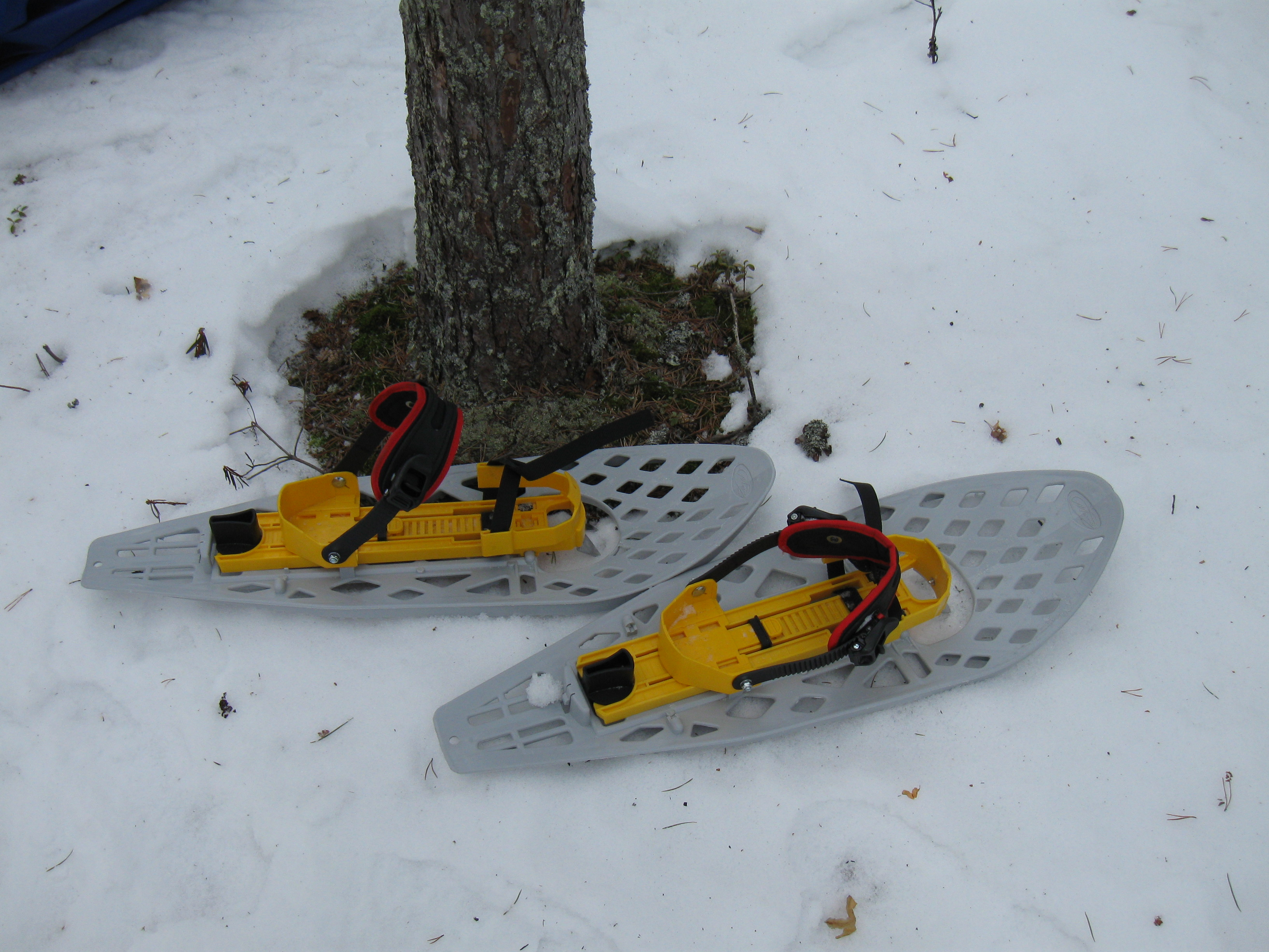 A pair of showshoes in a Finnish forest.